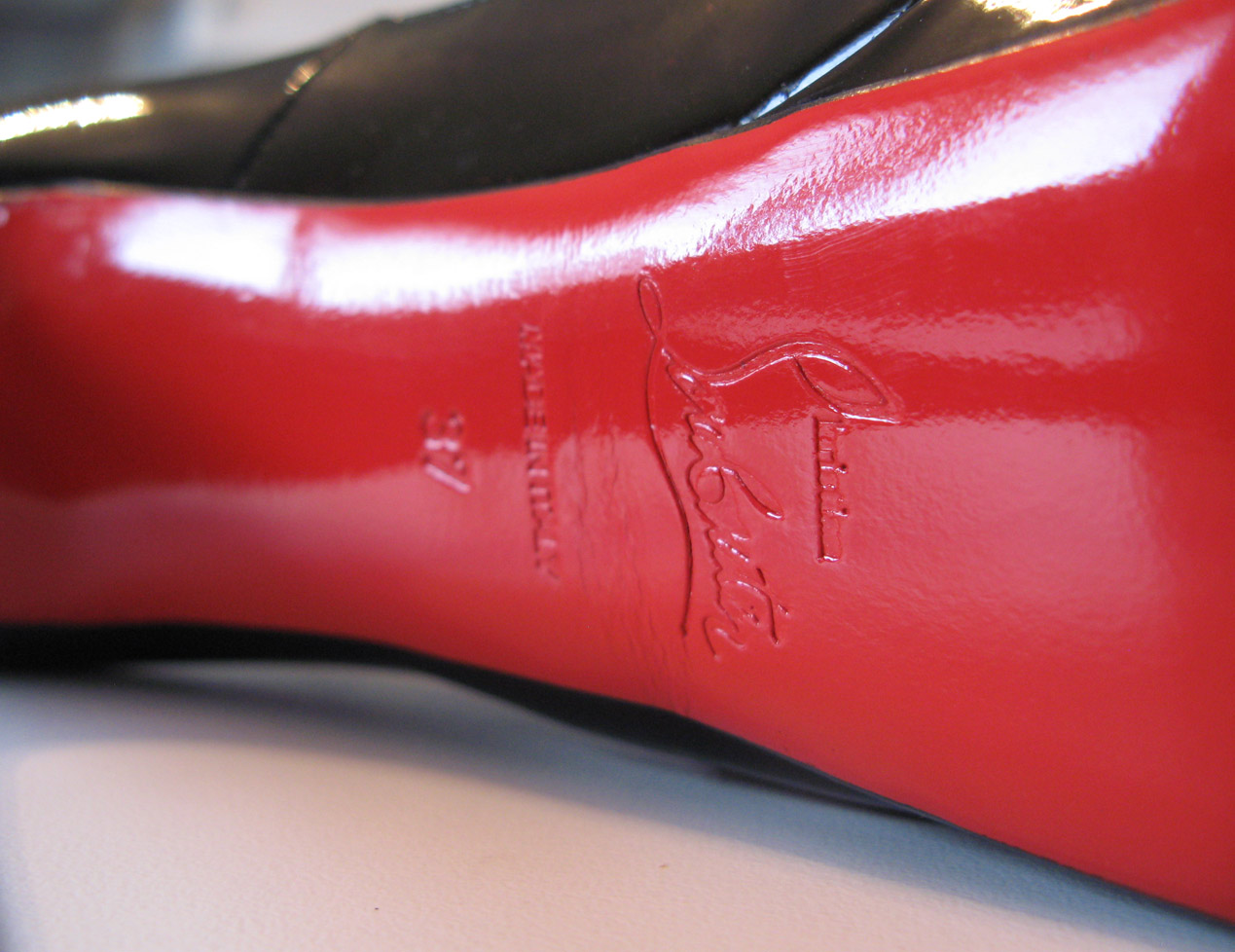 red sole, Christian Louboutin